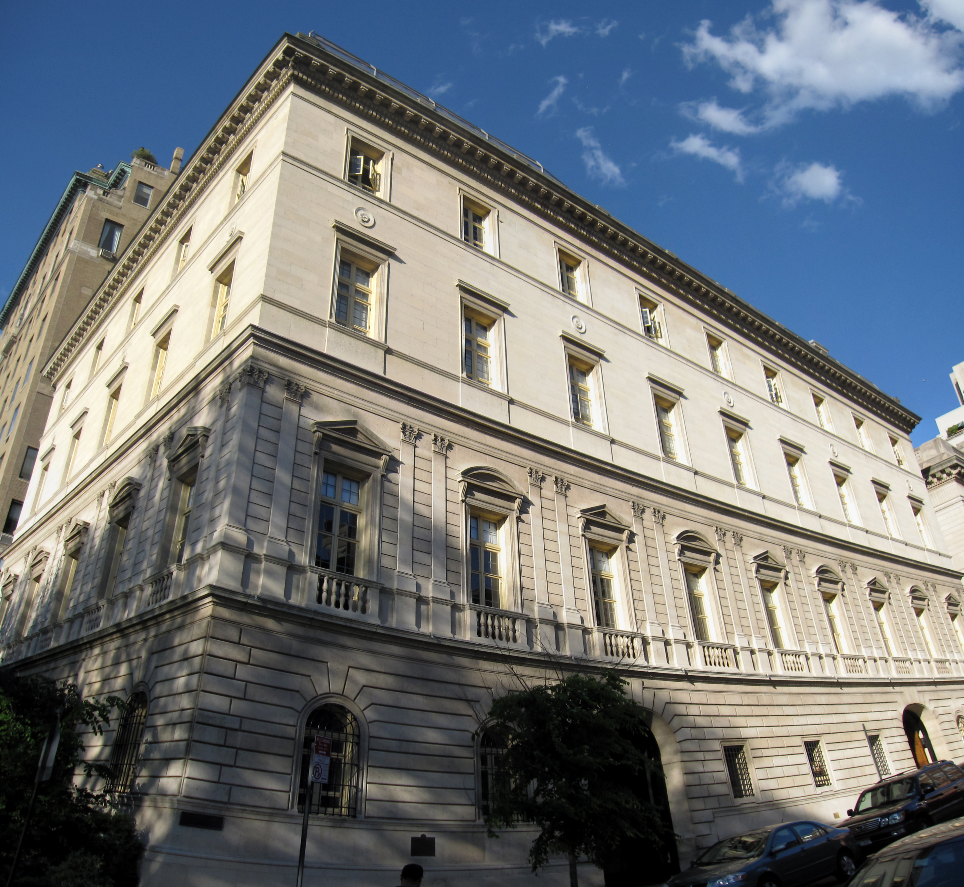 Otto Kahn Mansion